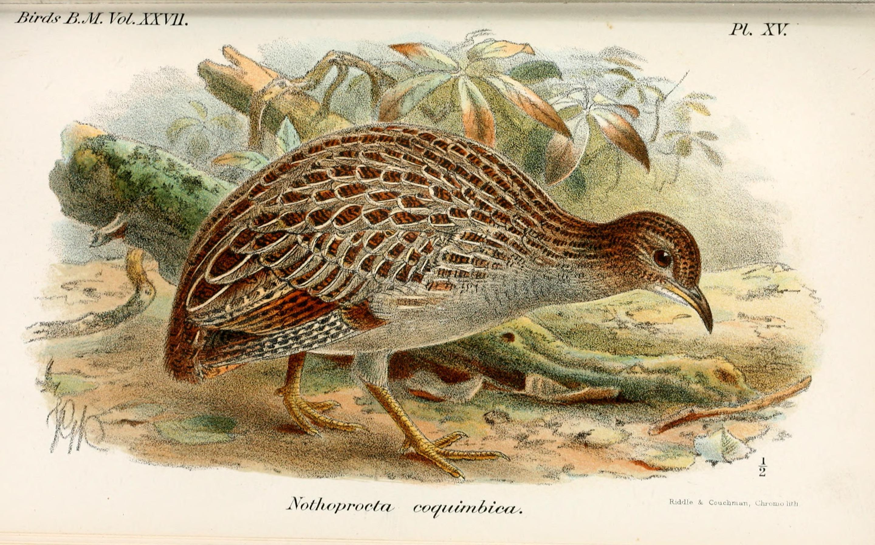 Nothoprocta coquimbica = Nothoprocta perdicaria, Chilean Tinamou